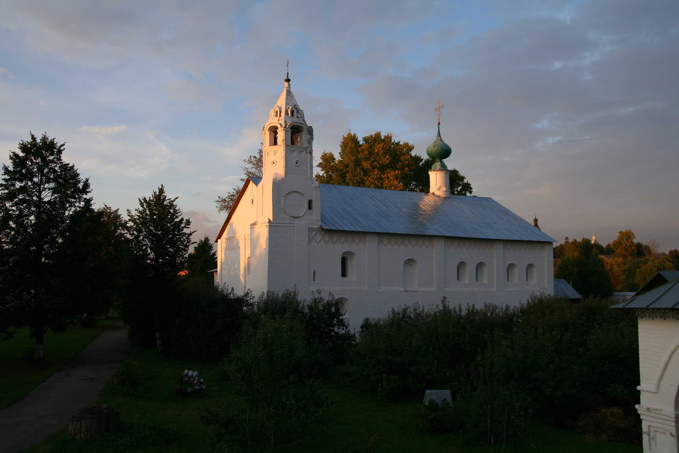 The Refectory Church of Conception, Convent of Intercession, Suzdal, 1551